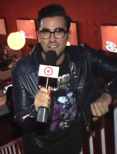 Dan Levy at World MasterCard Fashion Week 2012